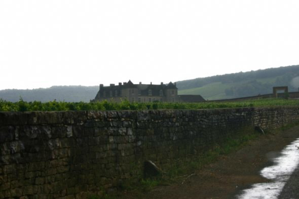 Château de Clos de Vougeot, near Dijon, France